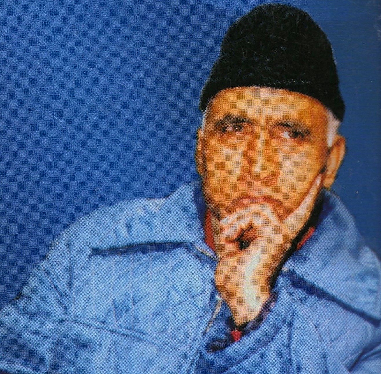 G N Firaq in pensive mood